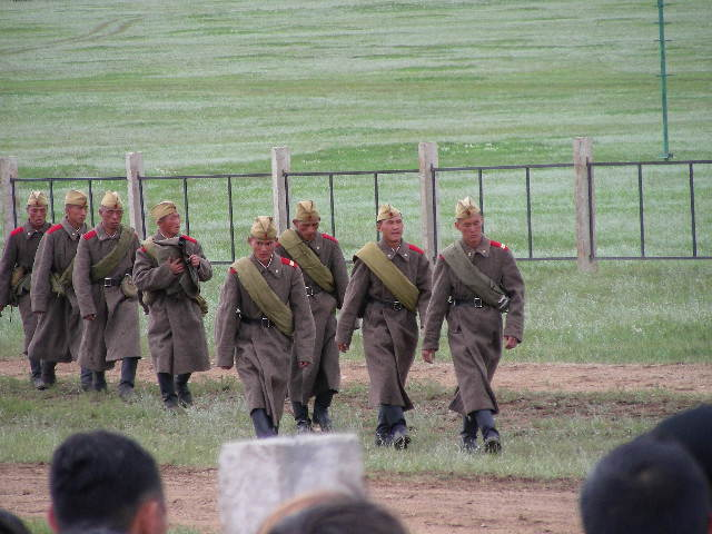 Mongolian Soldiers